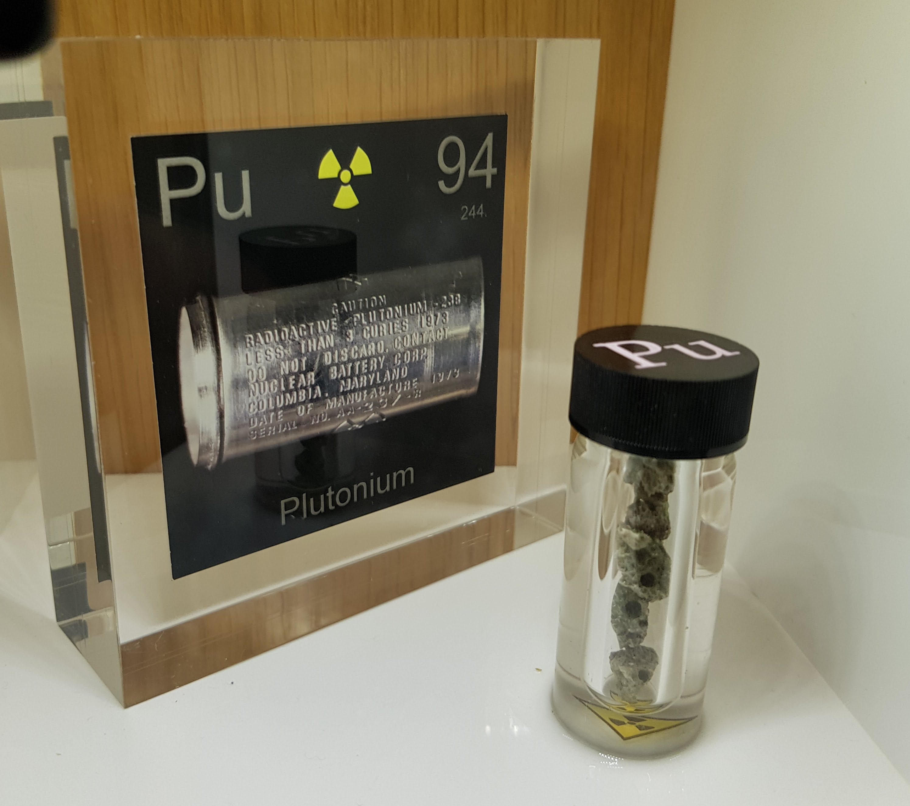 Radioactive Plutonium sample at Questacon museum, Canberra, Australia Radioactive Plutonium sample at Questacon museum, Canberra, Australia depicts: plutonium location: Questacon (Questacon)